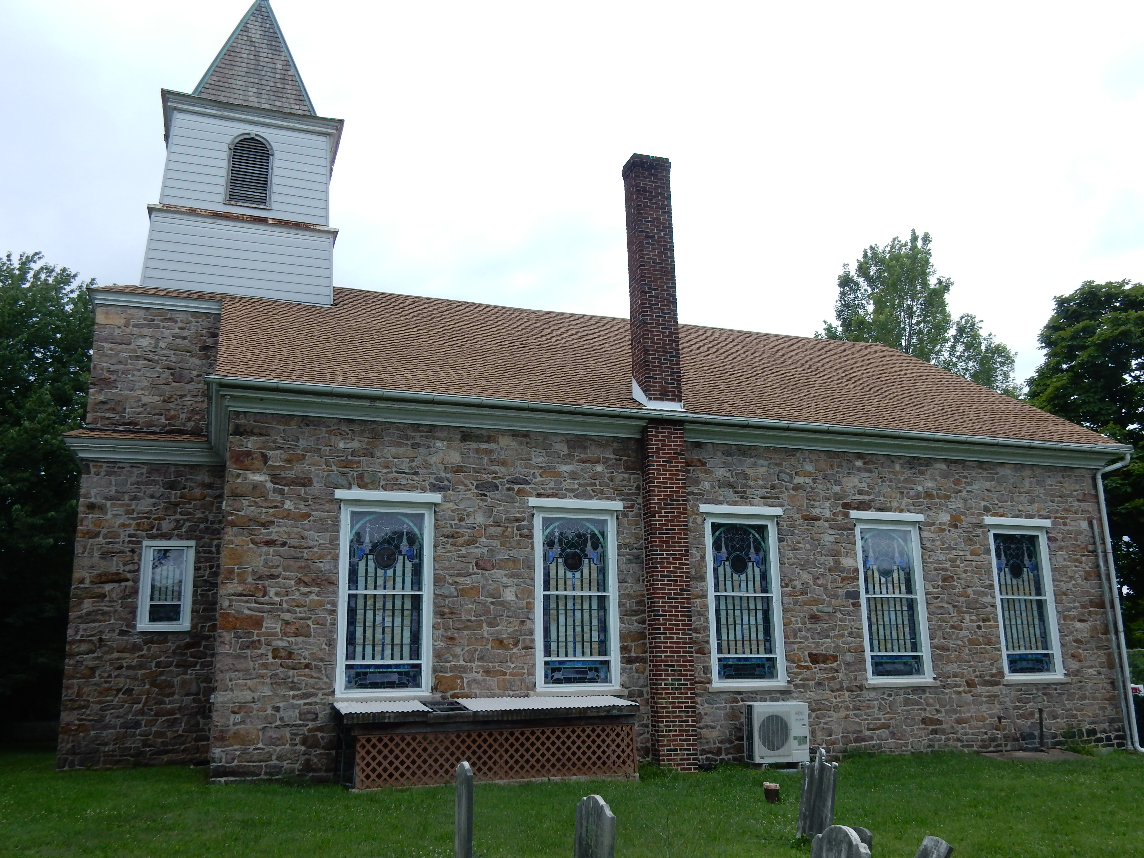 St.John's United Church of Christ, 3713 Pricetown Rd, Pricetown, Ruscombmanor Township, Berks County, Pennsylvania.